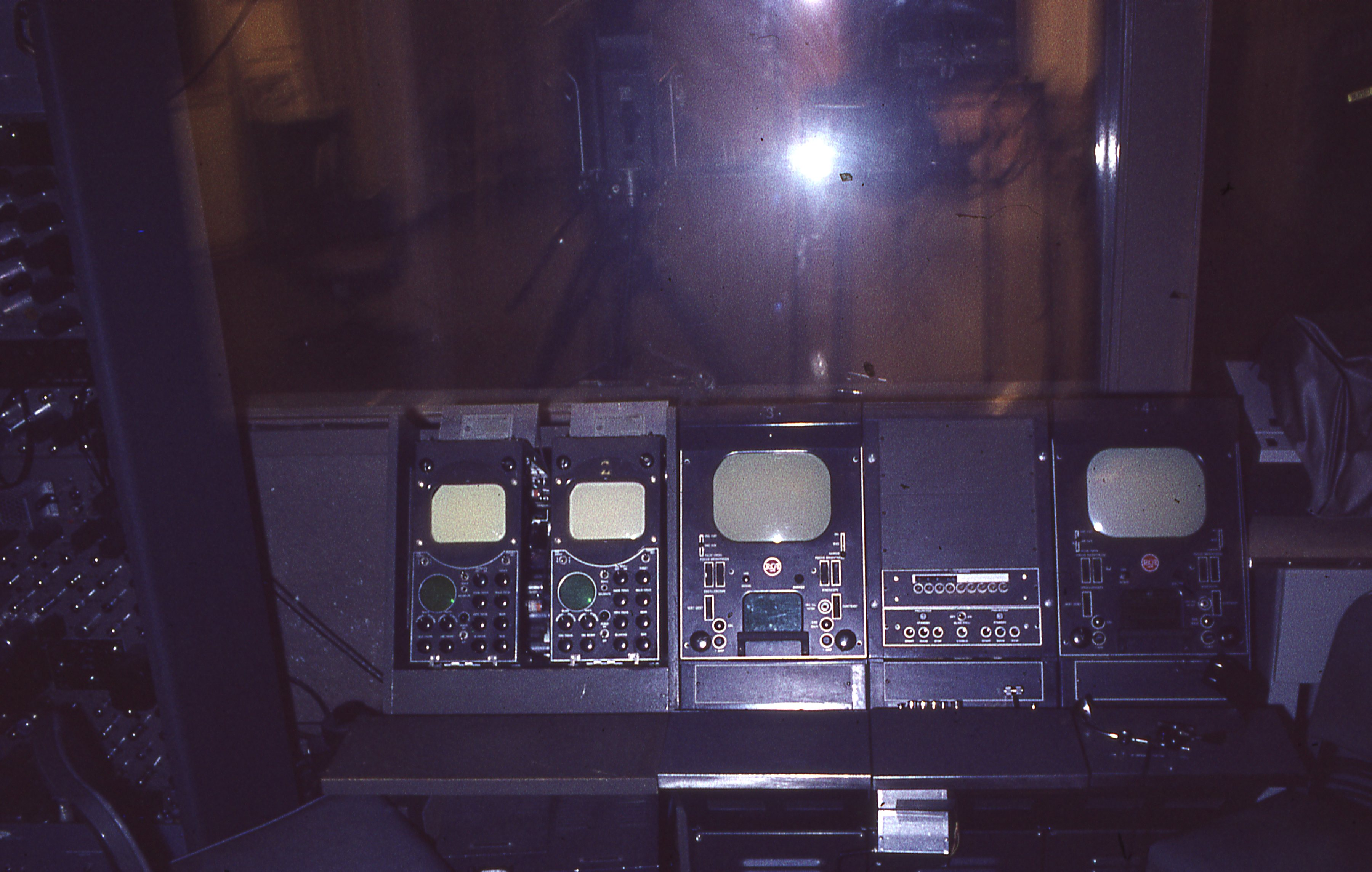 Eugene control room at Univ of Oregon, 1963